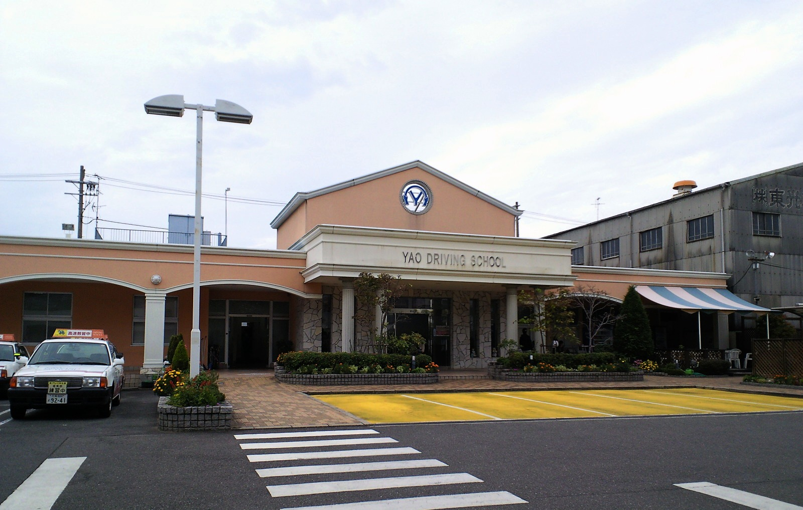 Yao Driving School, Yao, Osaka, Japan